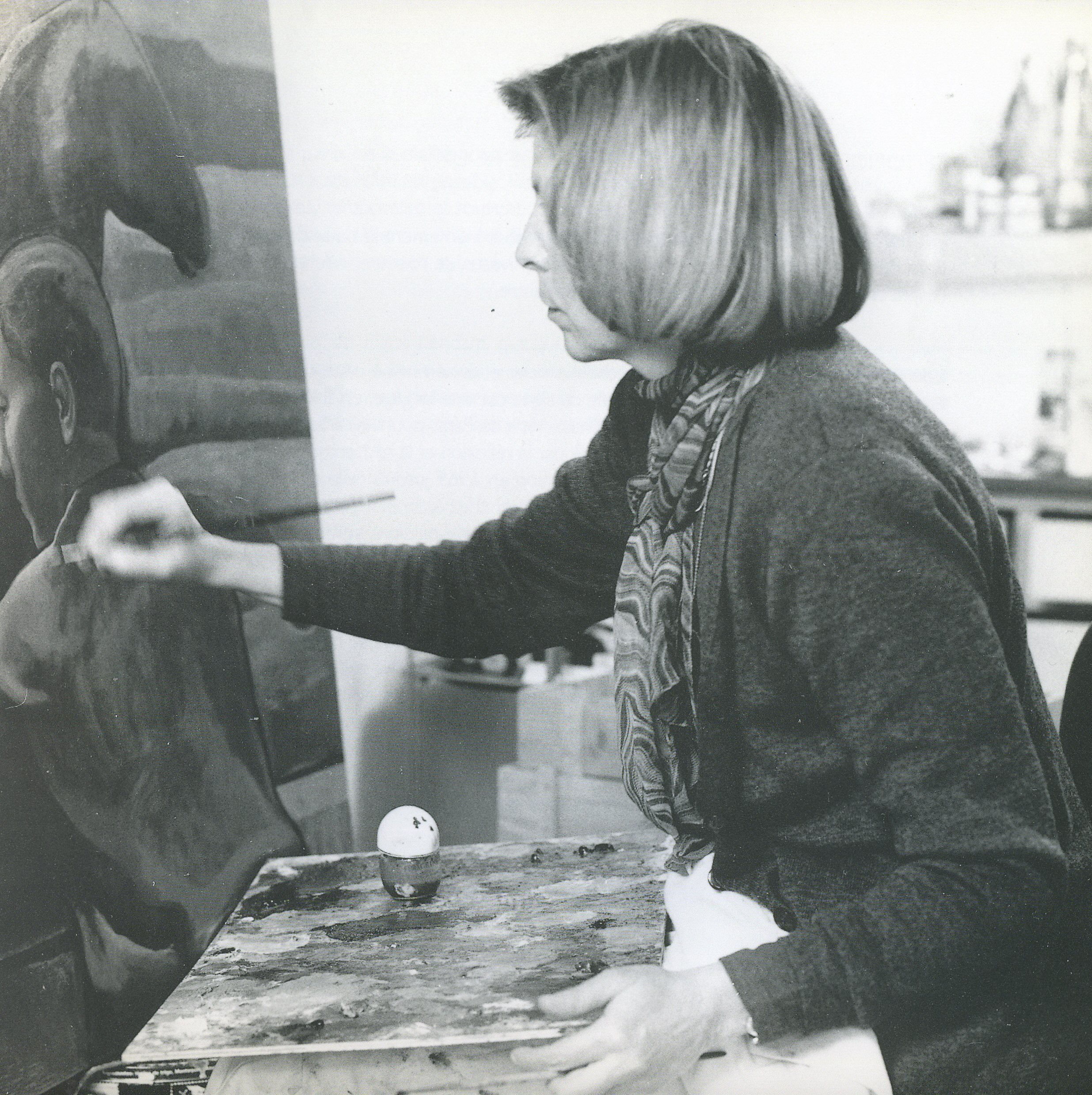 Monique de Roux in her studio